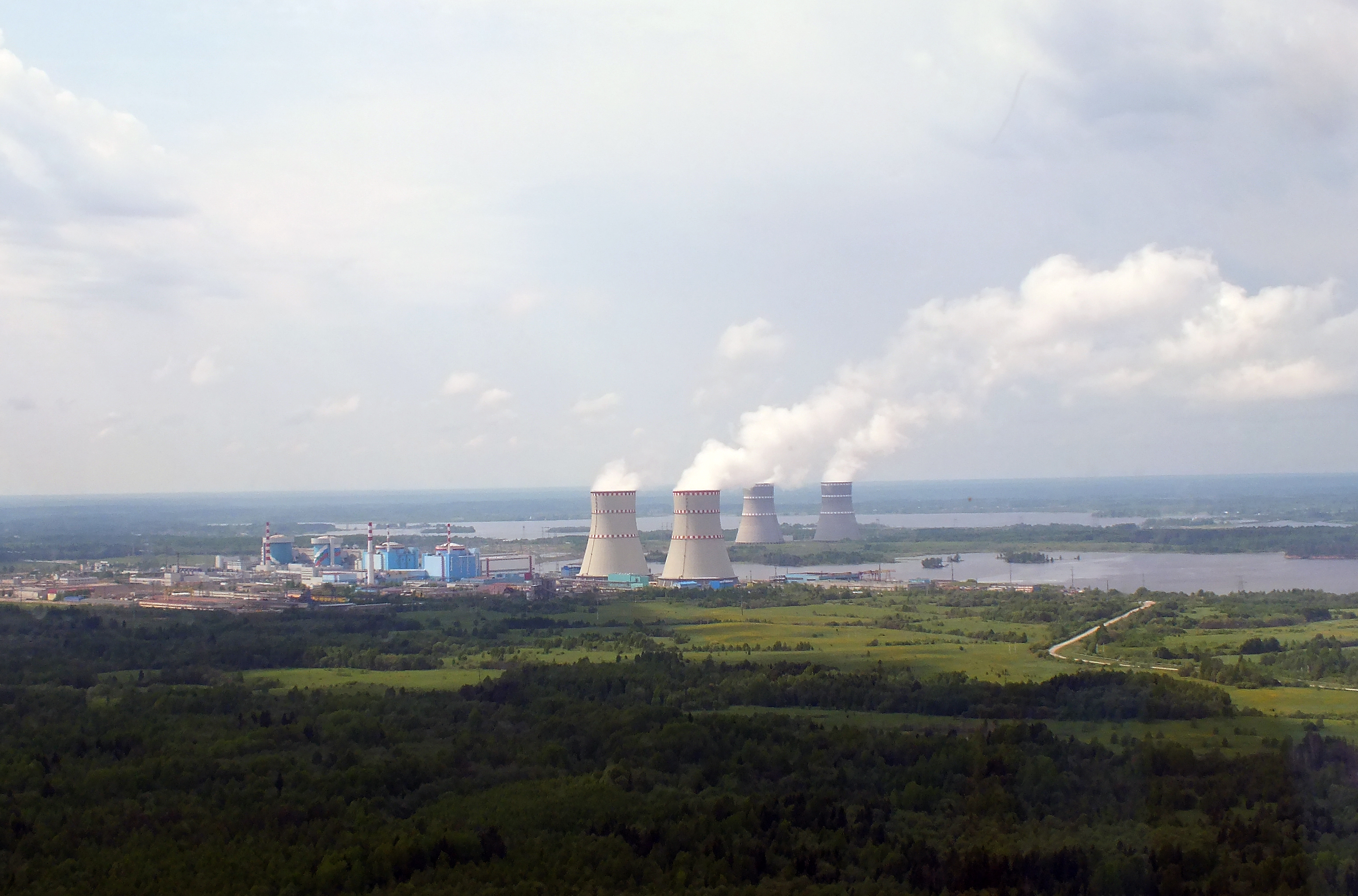 A view from the helicopter window as IAEA Director General Yukiya Amano arrives at the Kalinin Nuclear Power Plant during his official visit to Moscow. 18 May 2013